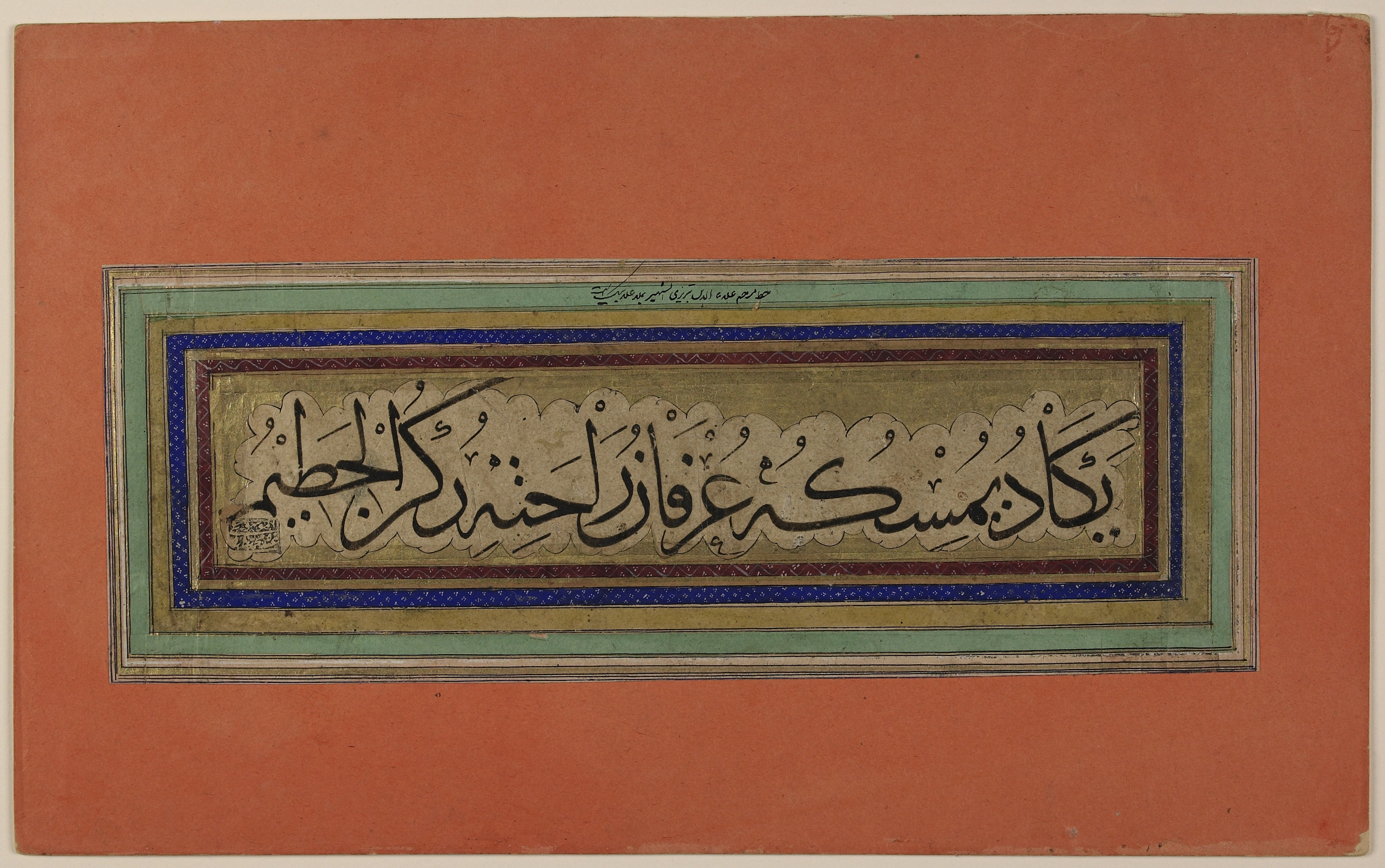 Dimensions of Written Surface: 12.6 (w) x 4.7 (h) cm Script: thuluth This calligraphic panel includes a single line of Arabic text executed in black thuluth script. A simple prayer towards God, it reads: Yakad yumasikuhu 'irfan rahatihi rukn al-hatim / The grasping of God (al-hatim) brings the knowledge of His comfort. The line of text is executed on beige paper and outlined in a cloud band on a gold background. It also is provided with a number of colored frames and is pasted to a larger sheet of orange paper backed by cardboard. The lower left corner of the line of text contains a square seal impression with the barely legible names: 'abduhu (his servant) Muhsin (or Muhyi) al-Musavi and the date 1154/1741-2. Above the line of text and in the center of the green frame appears a minute a posteriori inscription, which reads: khatt-i marhum 'Ala' al-Din Tabrizi, shahir bi-Mawlana 'Alabeg ast ("the handwriting of the deceased 'Ala' al-Din Tabrizi, who is known as Mawlana 'Alabeg"). 'Ala al-Din Tabrizi was a calligrapher active during the reign of the Safavid ruler Shah Tahmasp (r. 1524-76), for whom he executed royal decrees (firmans). He executed a number of inscriptions placed on buildings in the cities Tabriz, Karbalah, and Qazvin (Safwat 1996: 84-88 and cat. no. 43, and 134-5, cat. no. 65; Huart 1972, 103; and Qadi Ahmad 1959, 79). Although the later inscription attributes the specimen to 'Ala' al-Din, it is unclear whether this Arabic prayer indeed was written by the great Safavid master calligrapher.